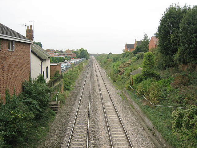 Site of Bredon Station. The site of Bredon Station on the Birmingham & Gloucester Railway, looking south towards Cheltenham.